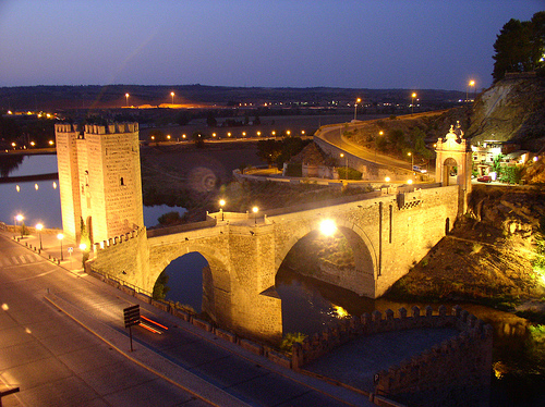 Alcantara bridge, Spain